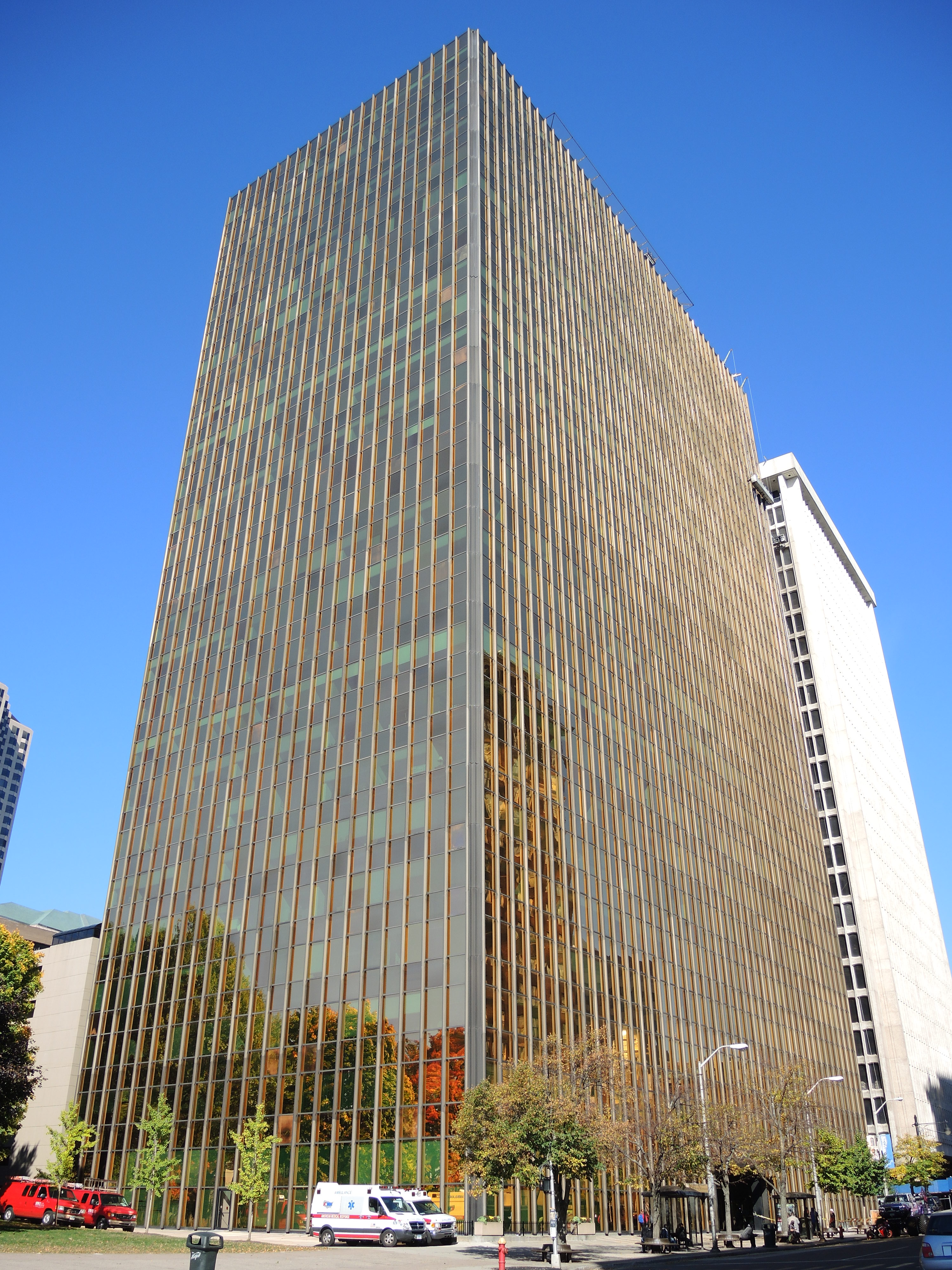 Southeast side of United Technologies Corporation headquarters in Hartford, Connecticut